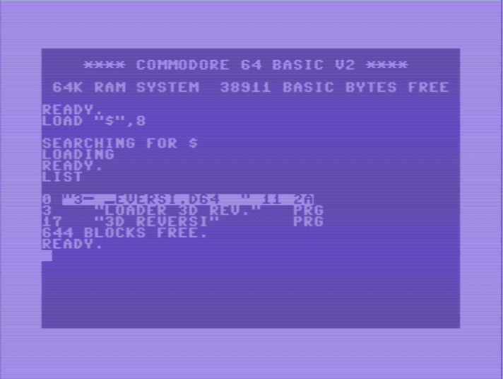 directory listing on a Commodore 64 disk drive